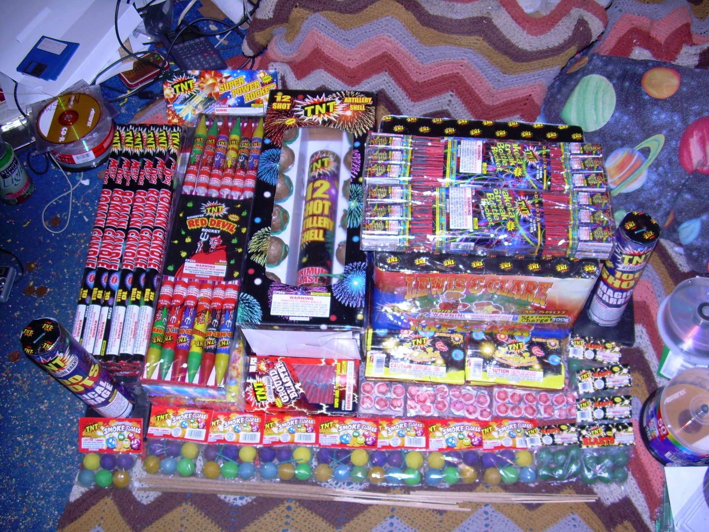 Some examples of consumer fireworks grouped up. In order from left to right, top to bottom, the fireworks shown are: Roman candles, rockets, artillery shells, rockets, artillery shell combo shot, a Roman candle-like combo shot, firecrackers, jumping jacks, nonlight-emitting effect fireworks, another type of firecracker, smoke balls, and some punks at the bottom. Photographed by Nick Smith (aka ulillillia)